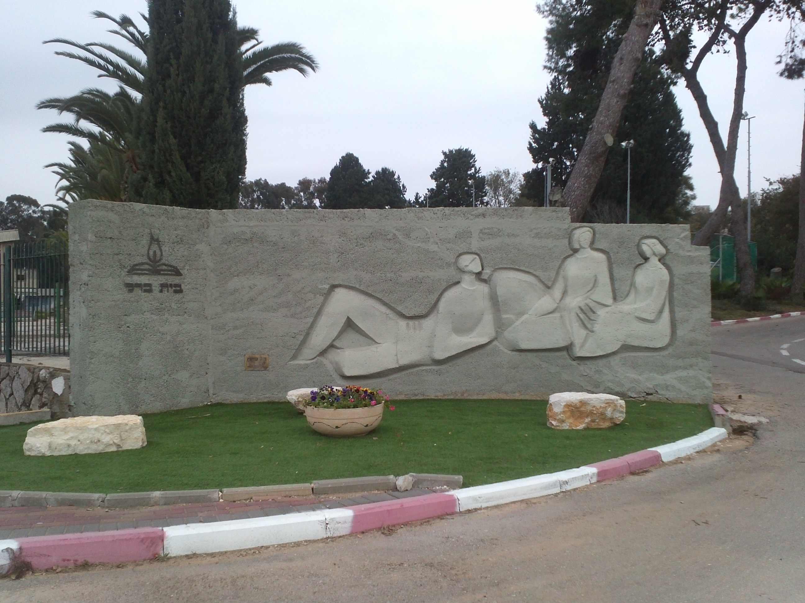 Relief by Dov Feigin at the entrance to Beit_Berl